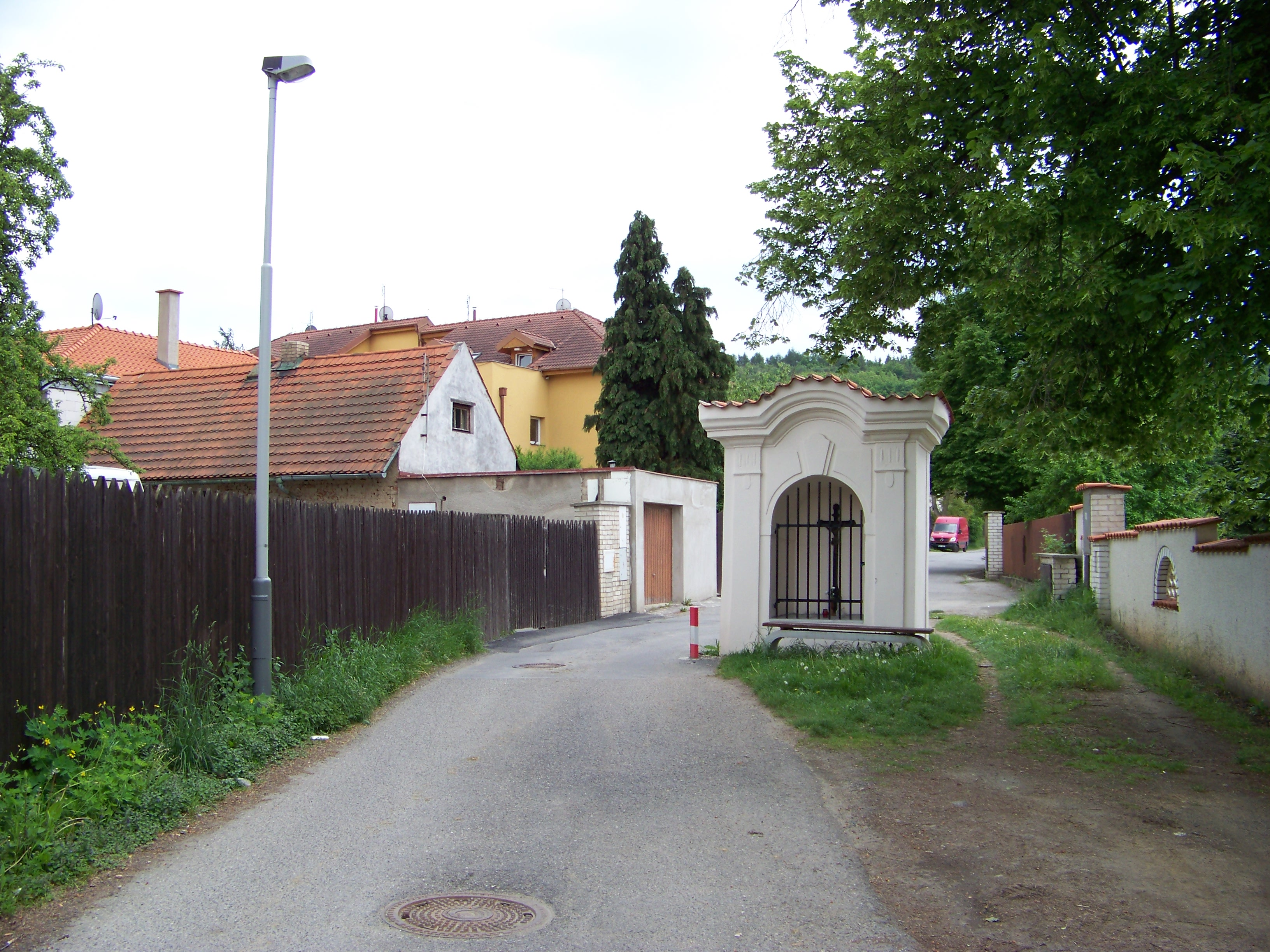 Prague-Zbraslav-Baně, the Czech Republic. K Vejvoďáku street, a chapel.